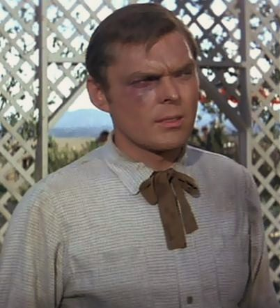 Edward Faulkner in McLintock! (cropped screenshot)